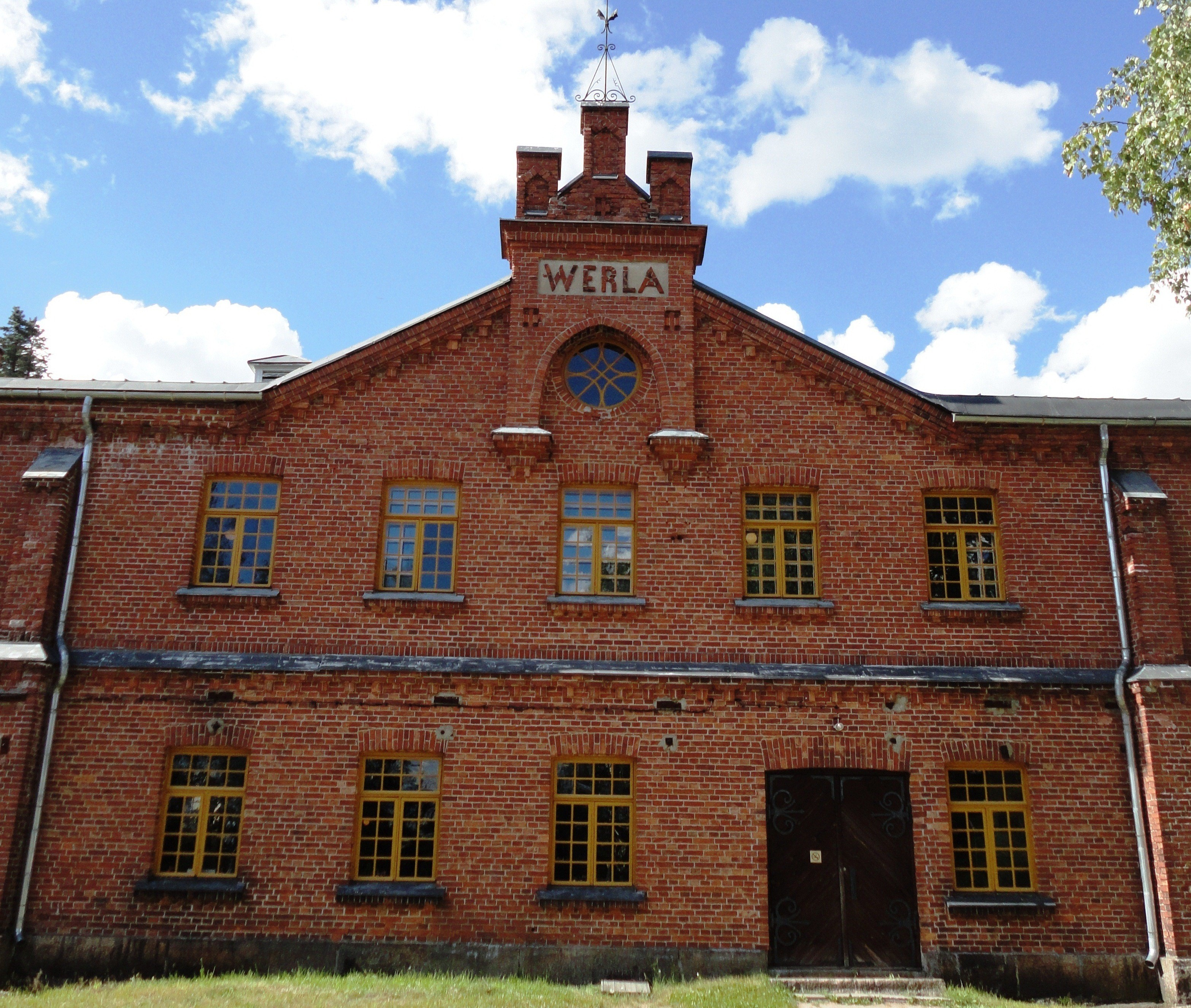 Verla's well preserved 19th century board mill was listed as UNESCO World Heritage Site in 1996.